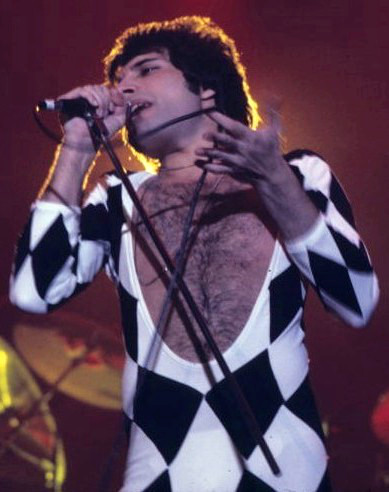 Freddie Mercury performing at New Haven Coliseum in New Haven, CT